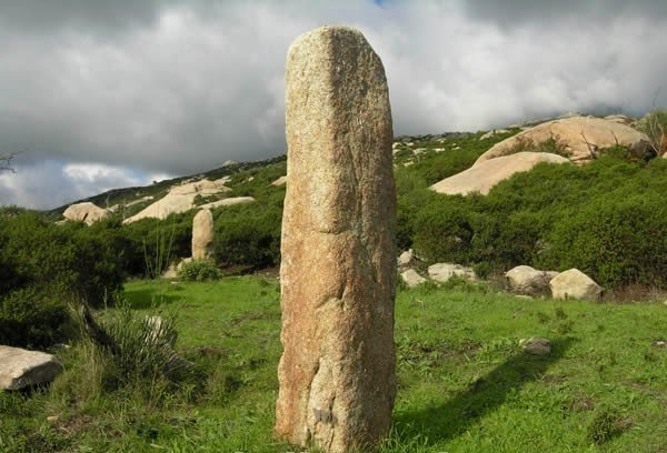 Menhir